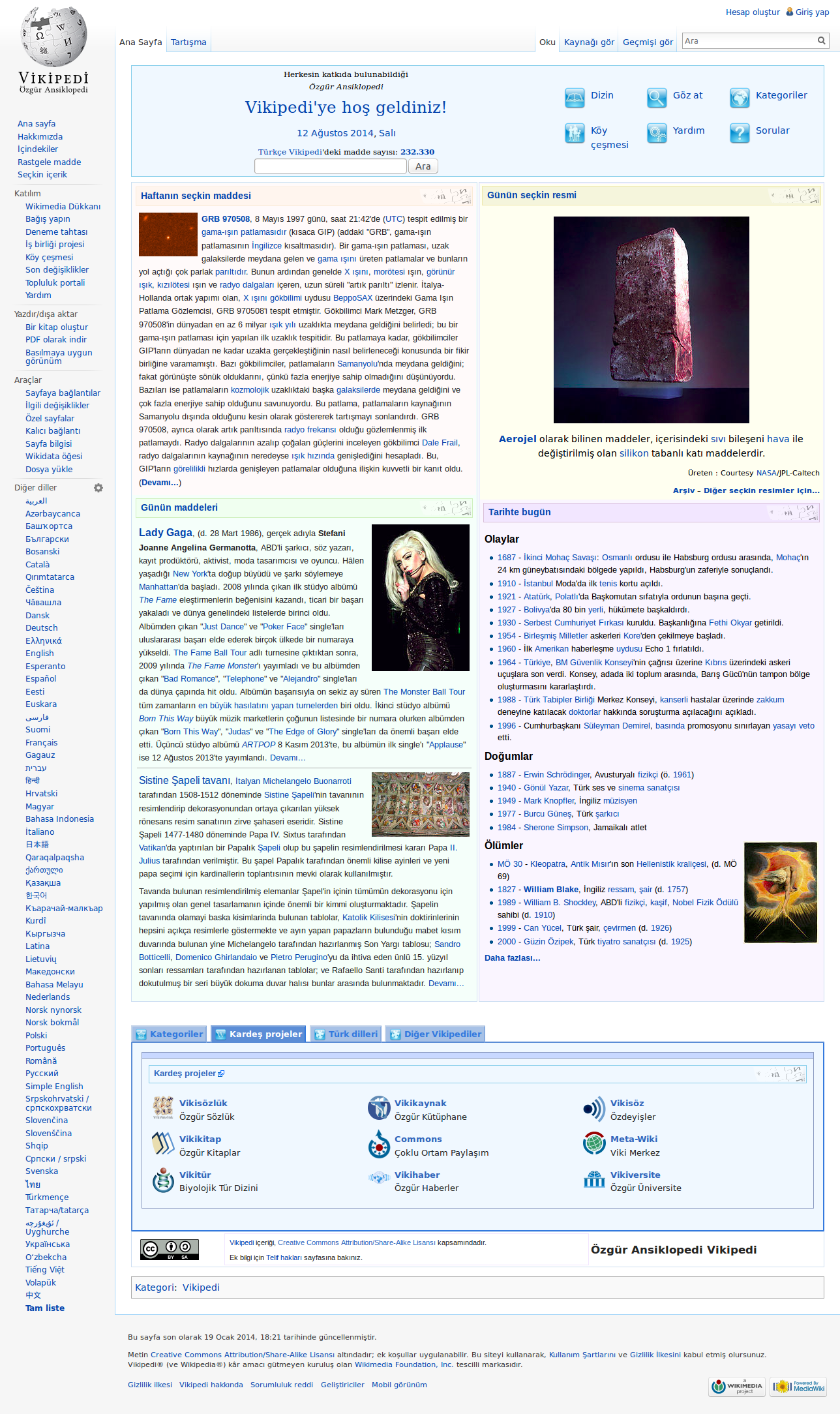 Screenshot of the Turkish Wikipedia homepage